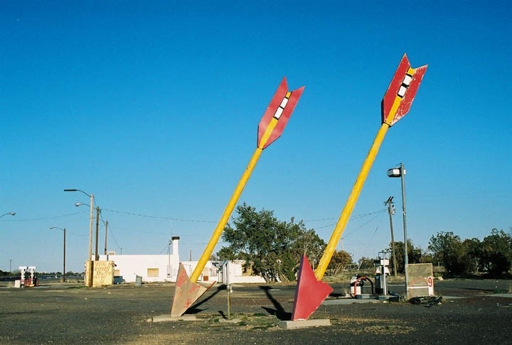 Scope and content: The original finding aid described this photograph as: Original Caption: Framed by a deep blue Arizona sky, two brightly colored telephone poles form the iconic twin arrows on Route 66. Location: Location: Coconino National Forest, Arizona (35.161° N 111.281° W) Status: Public domain. Photo by Leslie Connel